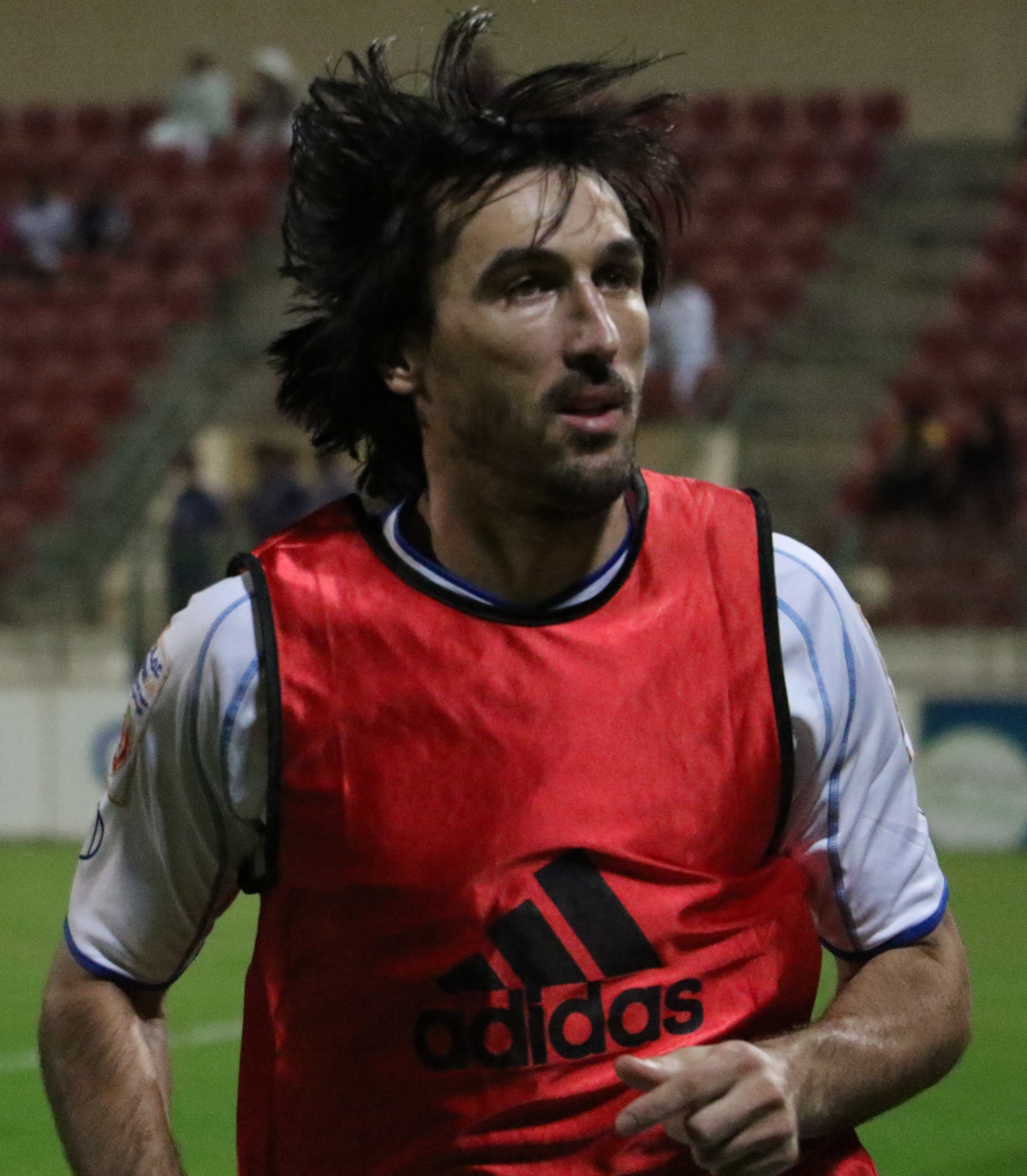 Delimir Bajić training with Saham against Nasr Club in Salalah 21 March 2015 Al Saada Stadium, Salalah Photographer email id